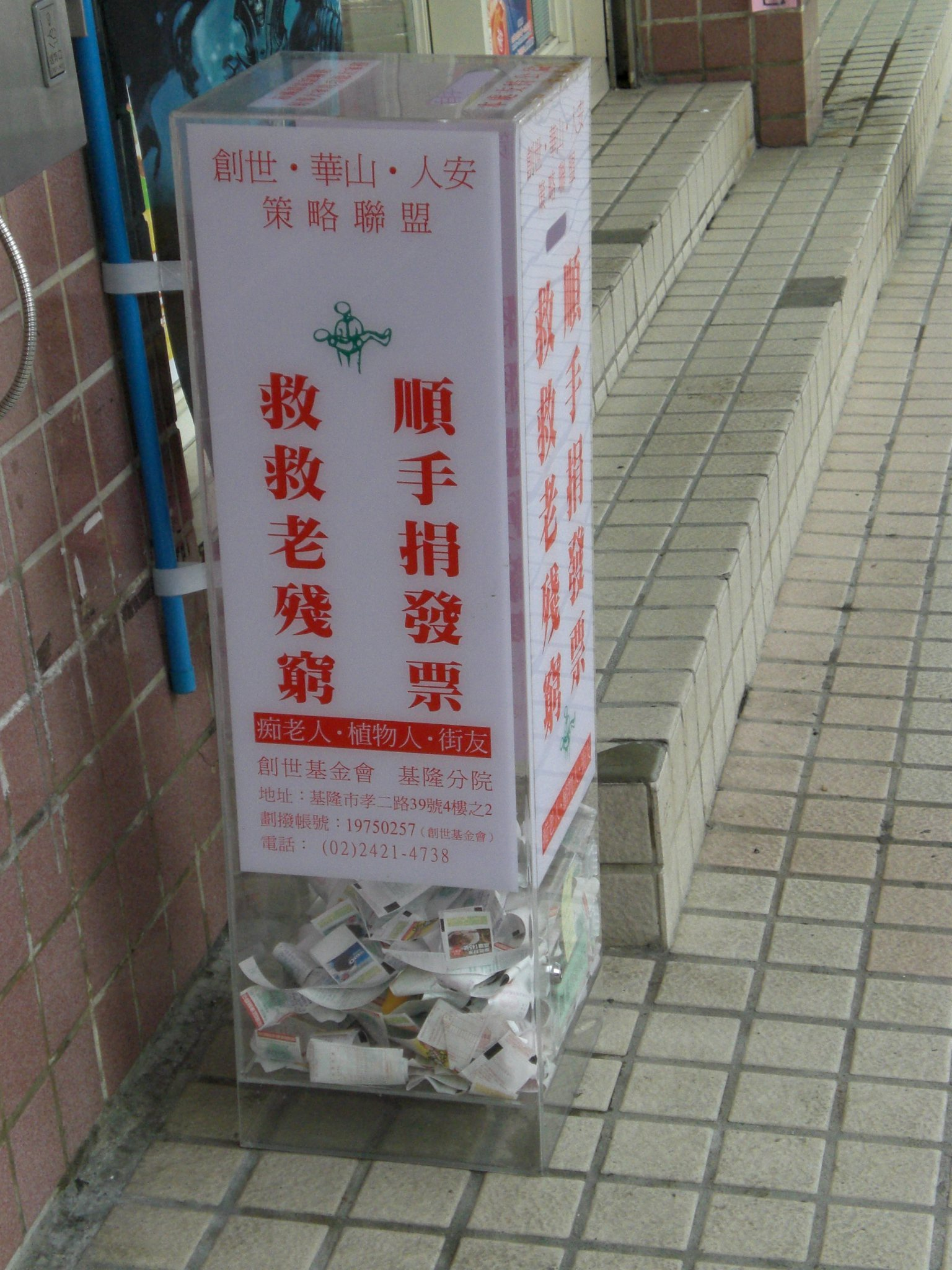 Genesis Social Welfare Foundation put this Uniform Invoice box in front of Hi-Life Keelung Lung-fu Store.